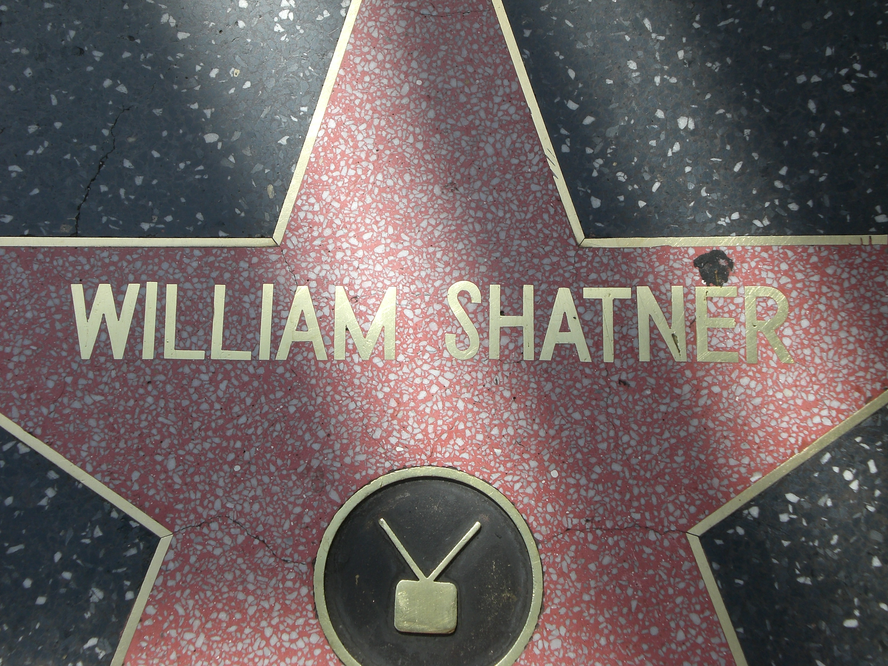 William Shatner's Star on the Hollywood Walk of Fame